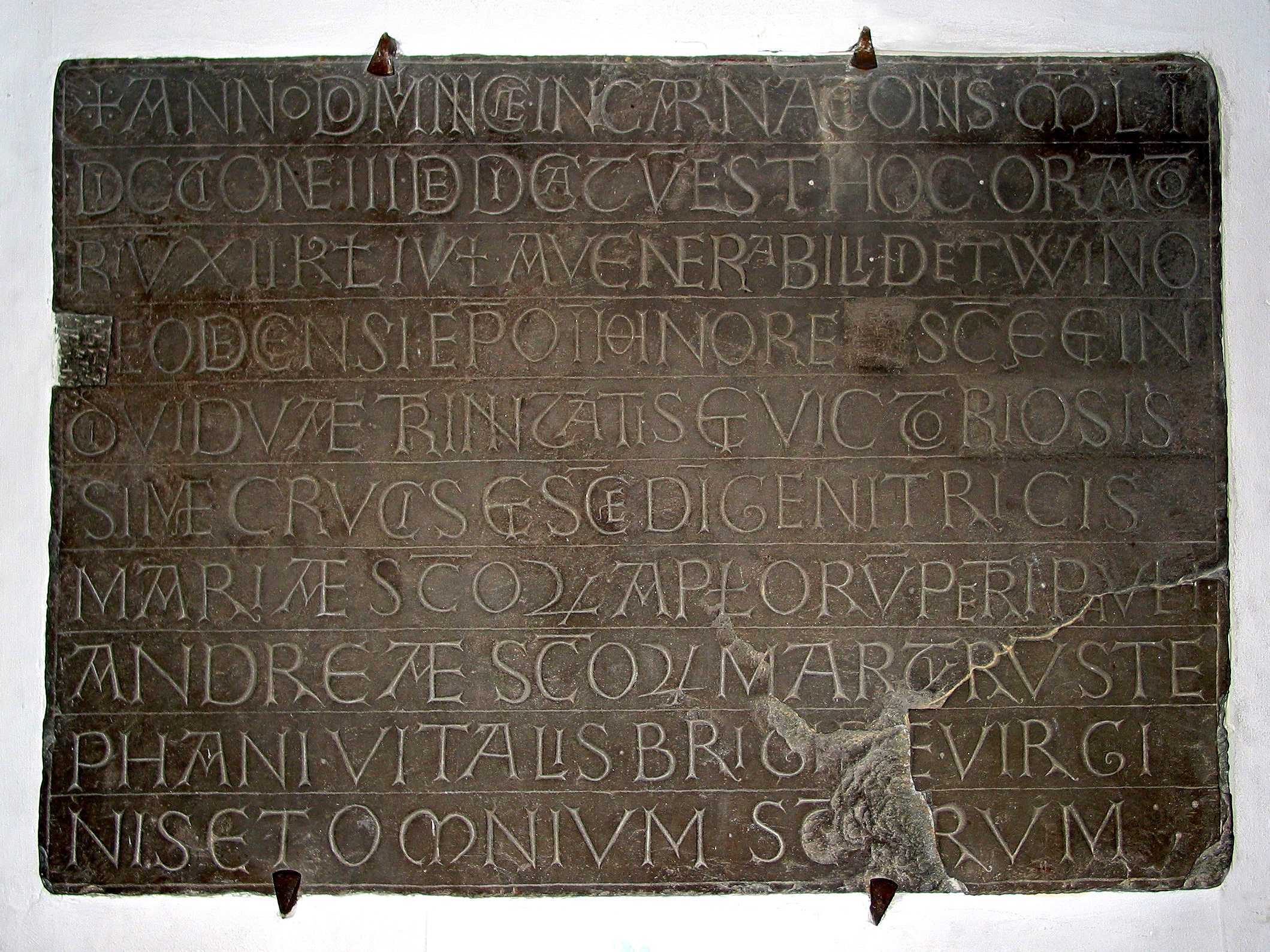 Waha (Belgium), St. Etienne church (1050) - Dedicatory stone commemorating the consecration of St. Stephen's church by Théoduin de Bavière, Bishop of Liège on June 20, 1050.